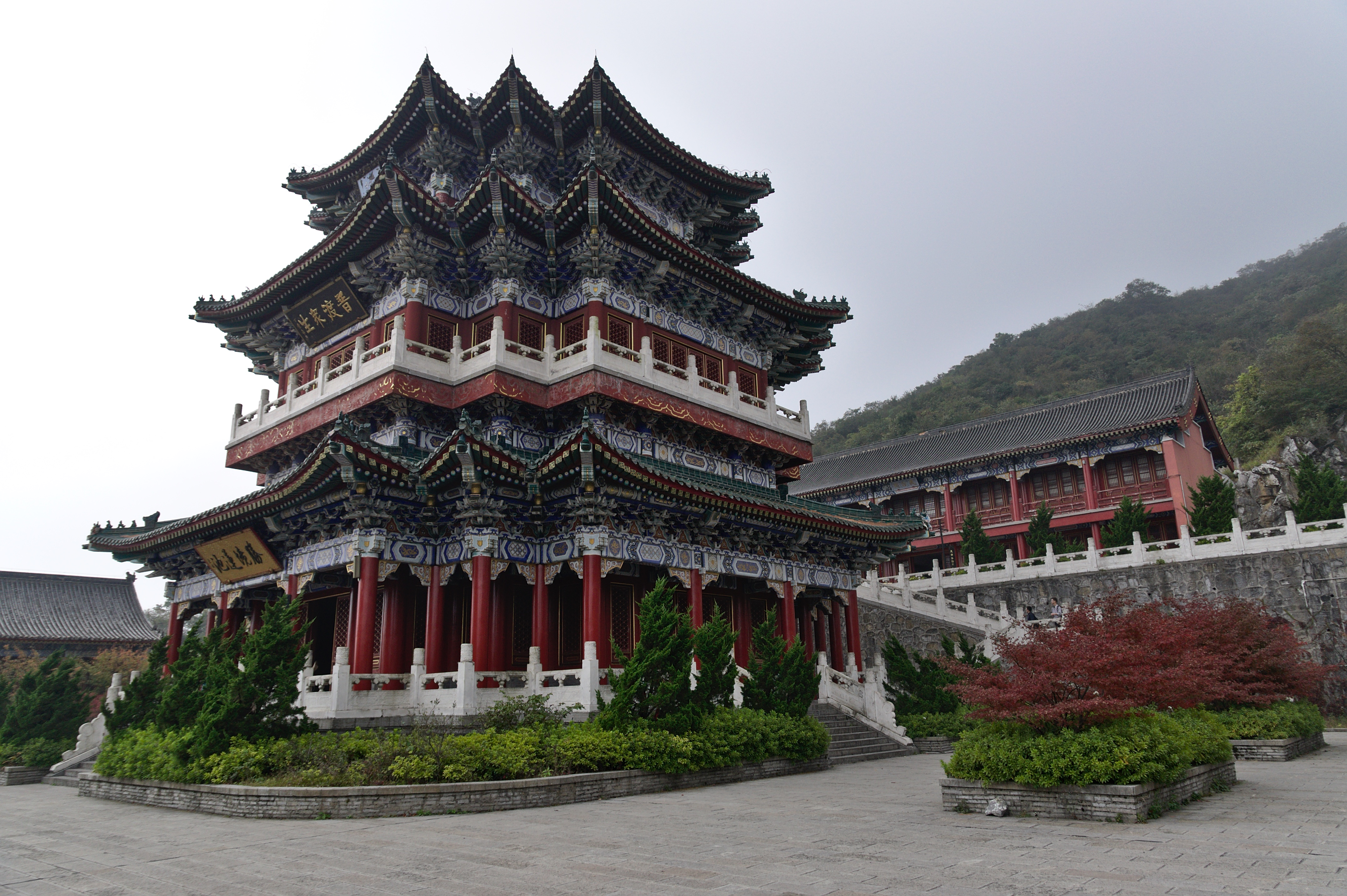 (cc) (by-sa) Ludger Heide